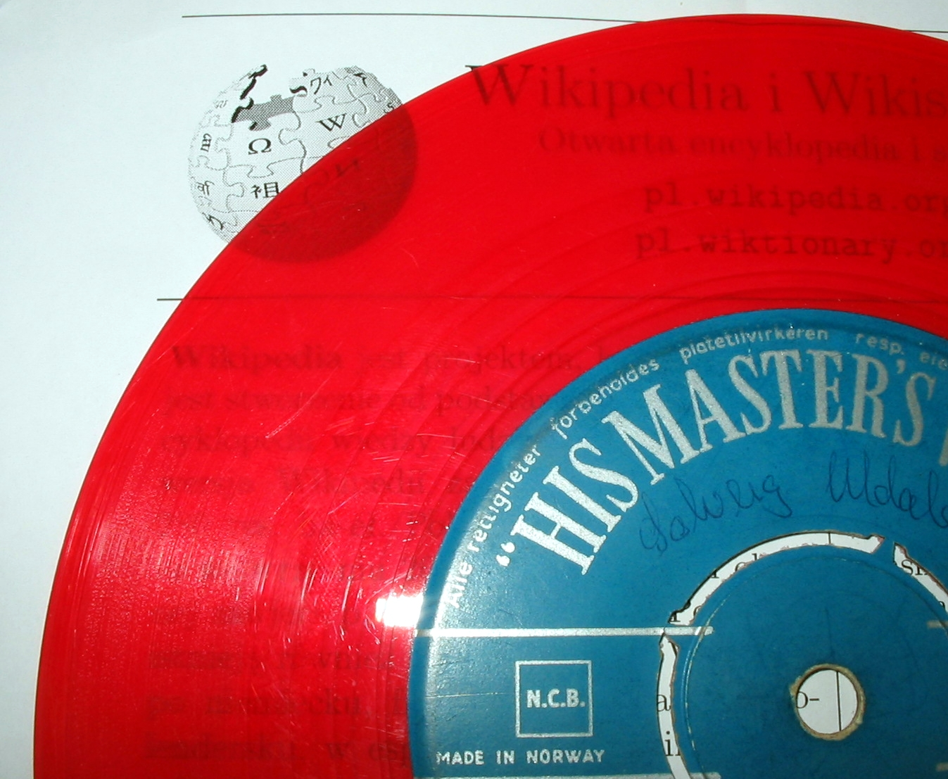 unusual gramophone records / red vinyl / single / His Master's Voice